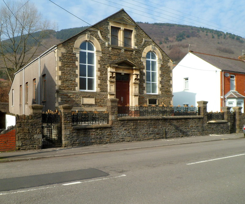 Saint Philip Evans Catholic Church, Cwmavon. Viewed across the B4286 Salem Road in the NE of the village.